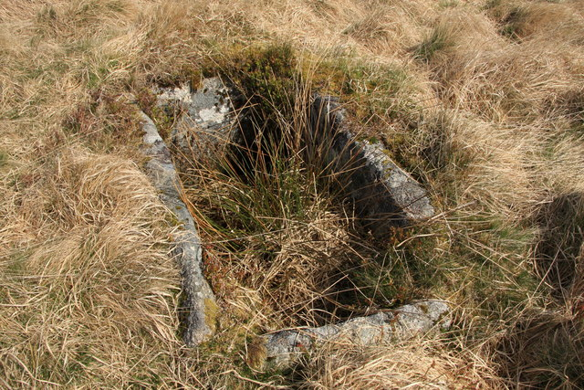 Cist south-west of Bellever Tor This cist, complete apart from its roof slab, is heavily overgrown.